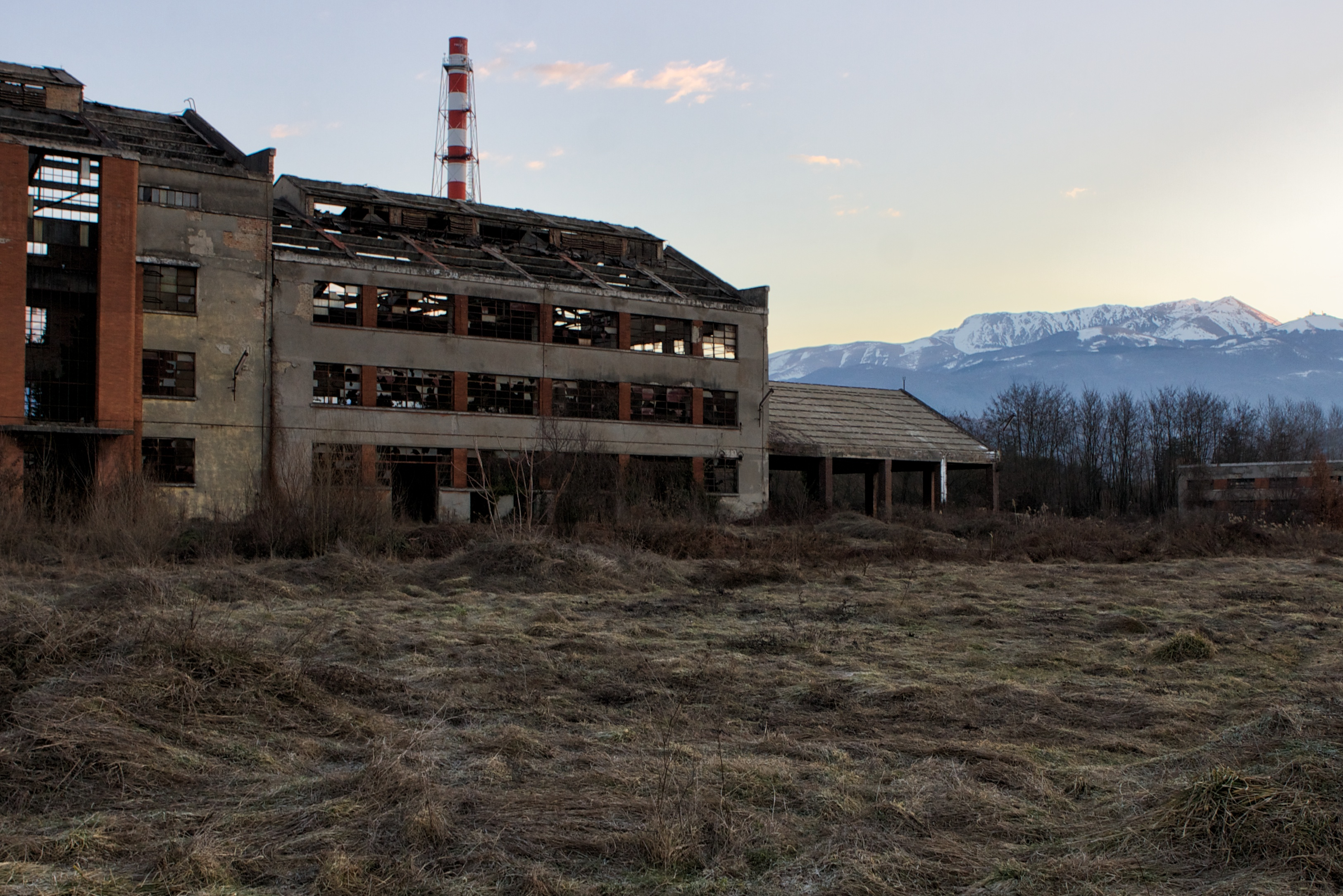 Dismantled Montecatini chemicals factory, Rieti (Lazio, Italy)